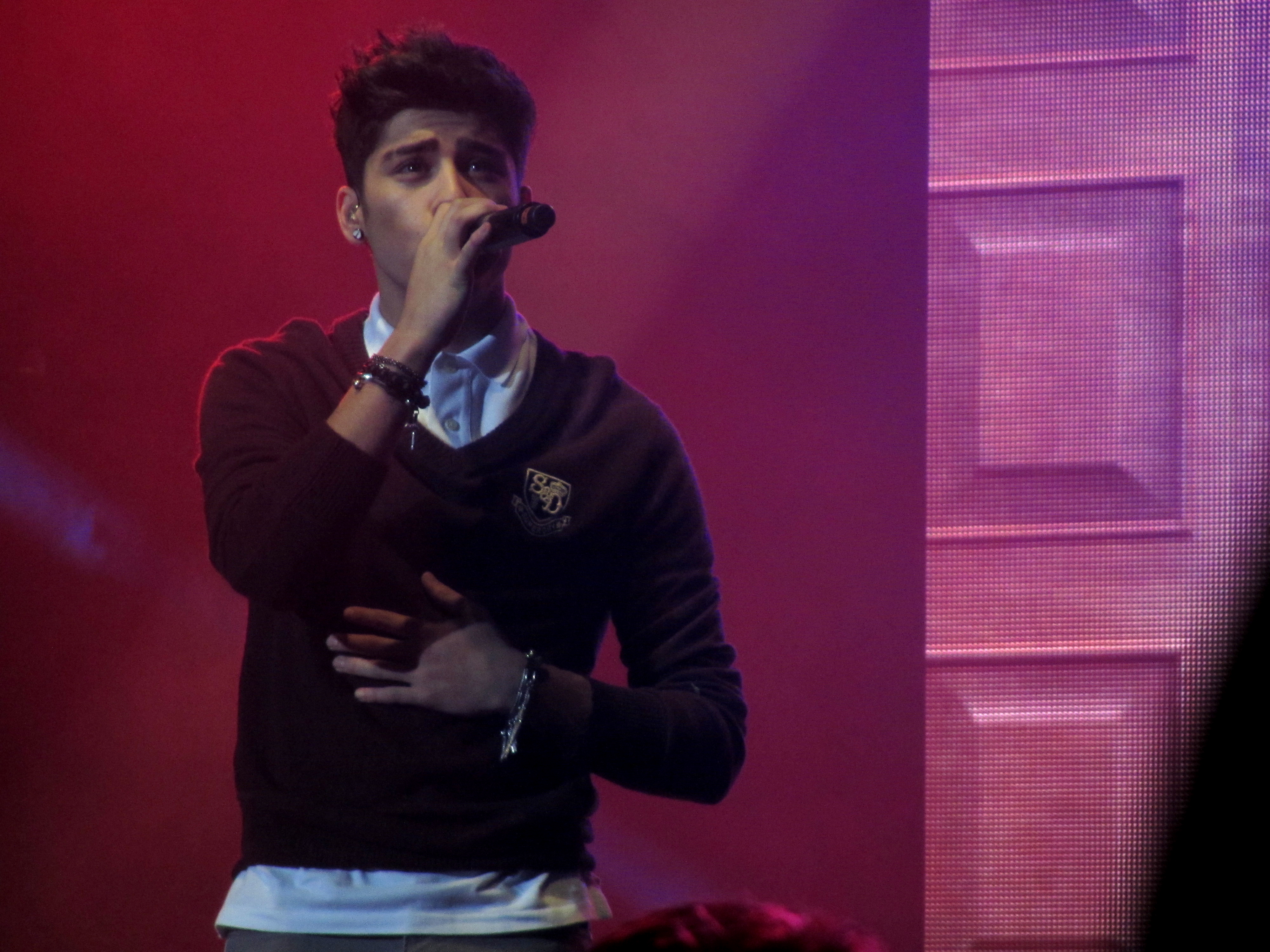 Zayn Malik performing "Gotta Be You", One Direction, Clyde Auditorium, Glasgow, Saturday 14 January 2012